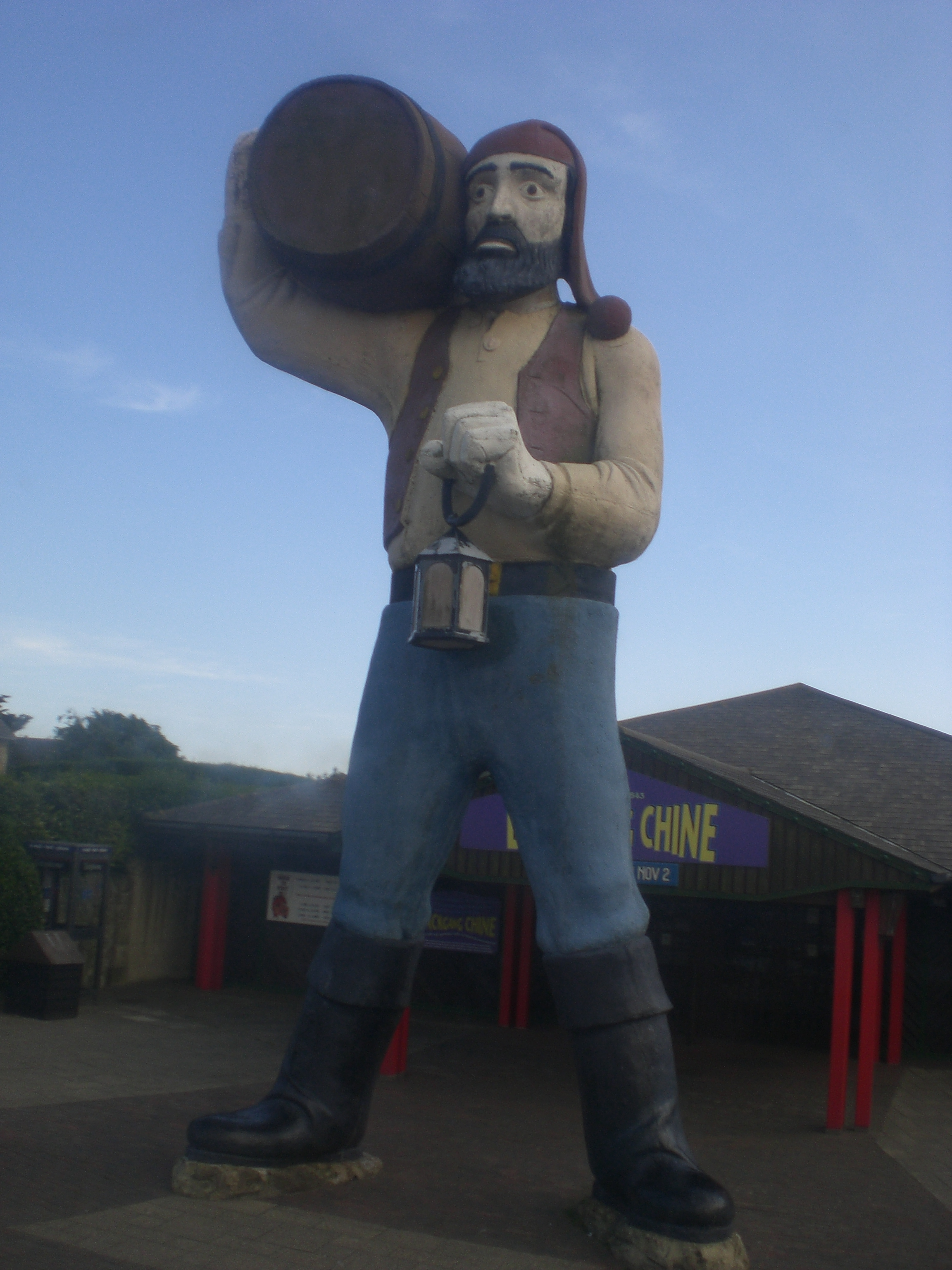 The main entrance to Blackgang Chine.